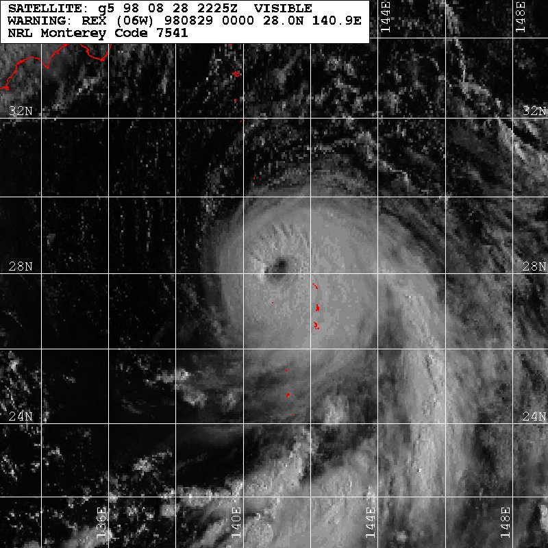 Typhoon Rex on August 28, 1998